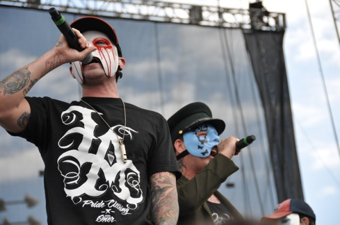 Hollywood Undead - Live in Concert